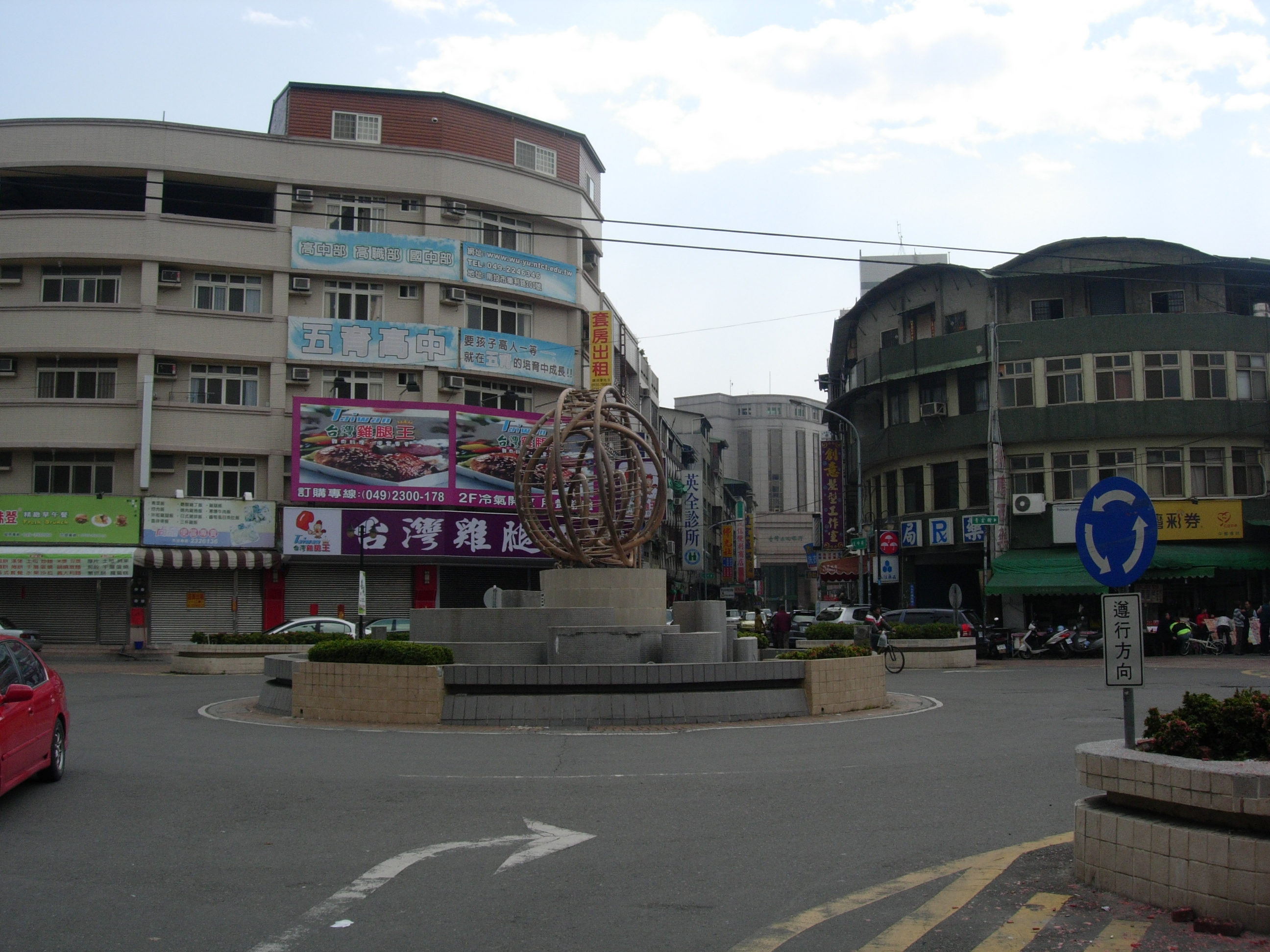 Tsaotun Traffic Circle中文（台灣）: 南投縣草屯鎮圓環。